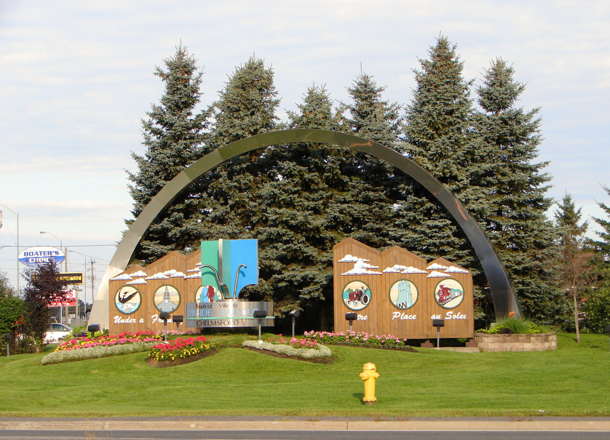 Chelmsford (Greater Sudbury), Ontario, Canada